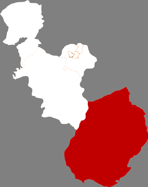 Location of Xiuyan Manchu Autonomous County in Anshan City, China